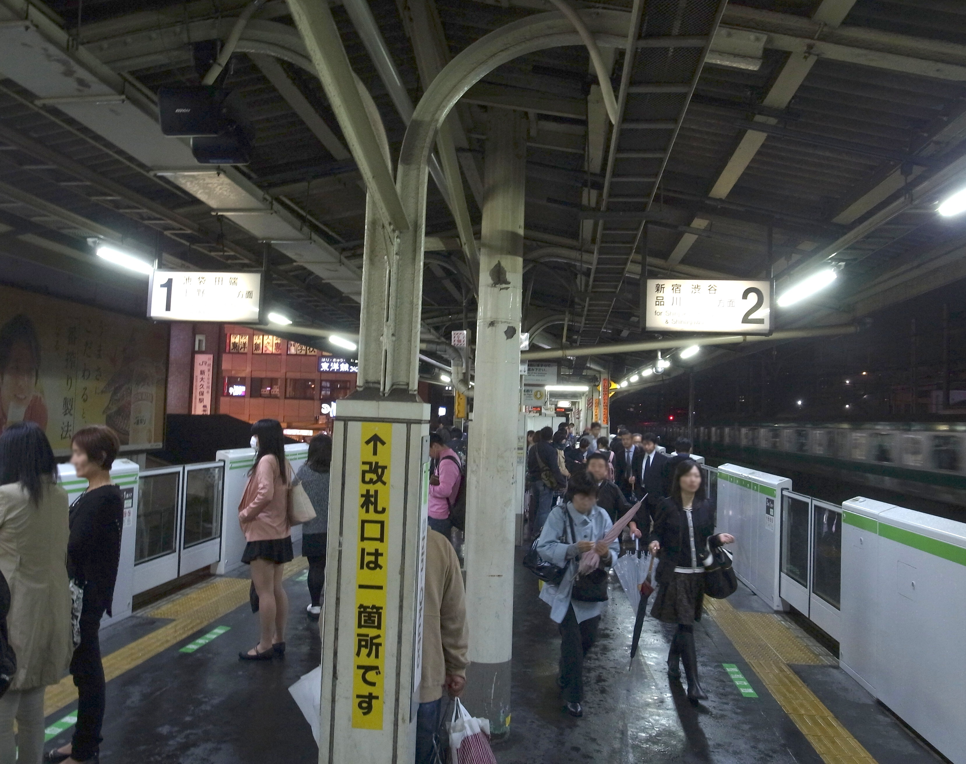 Shin-Okubo Station platform